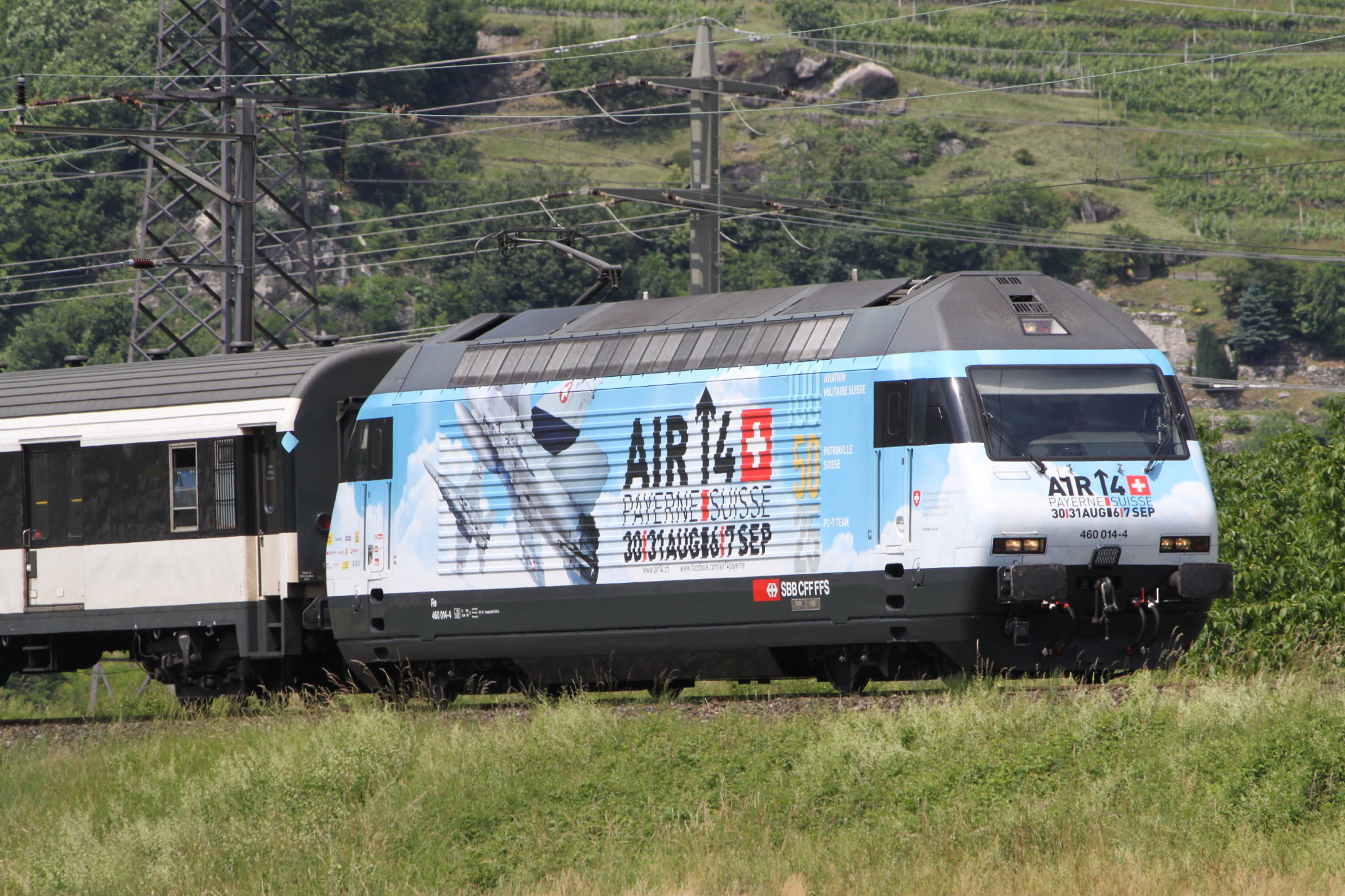 SBB CFF FFS Re 460 014-4 ahead of InterRegio 2280 from Locarno to Zürich between Riazzino-Cugnasco and Cadenazzo.